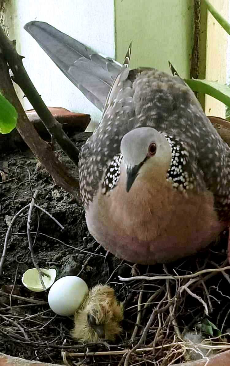 Spotted Dove along with her egg and a just hatched egg. An image of mother and her babies. One just born, and another yet to see the outside world.